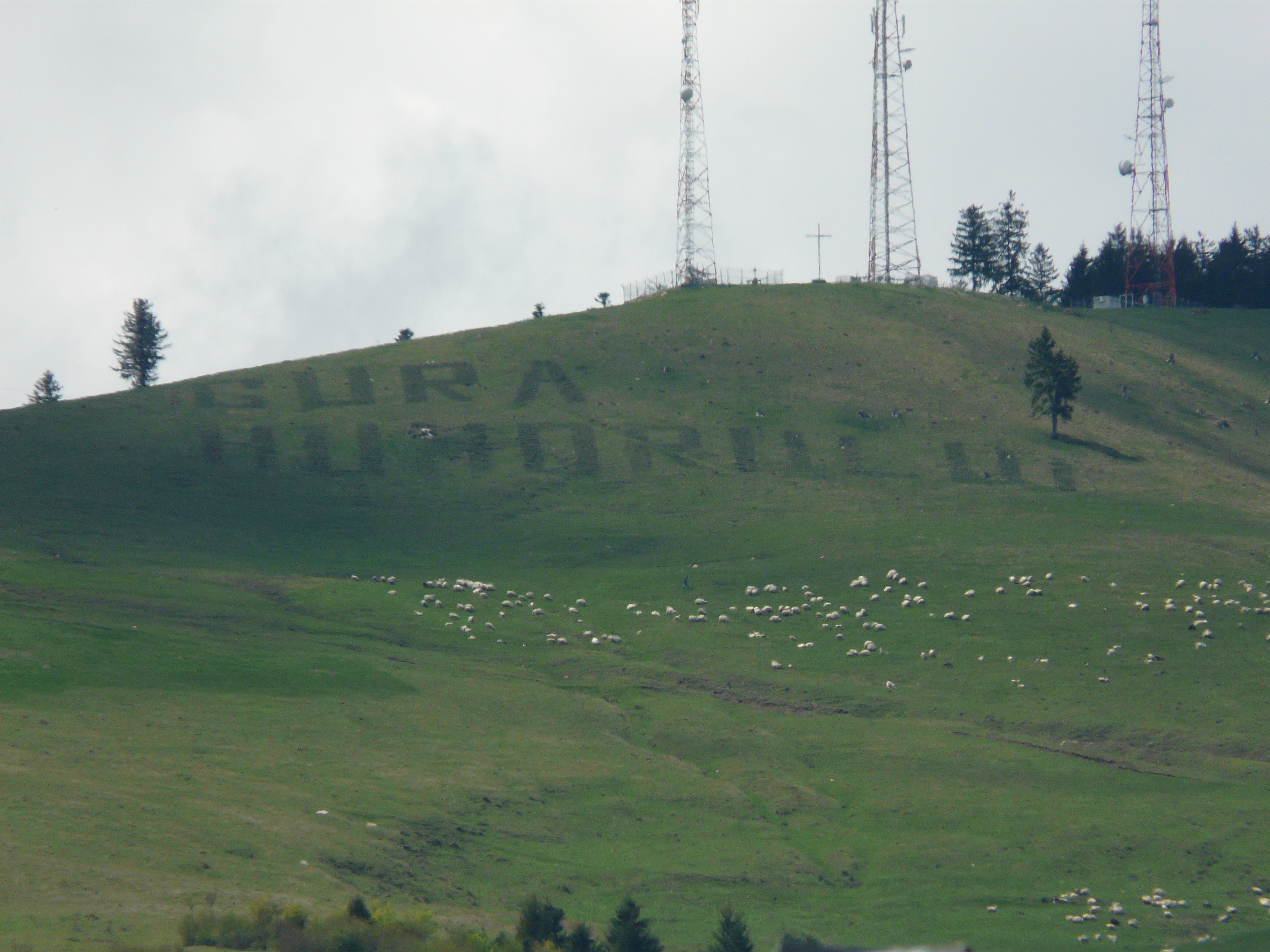 Gura Humorului, Romania